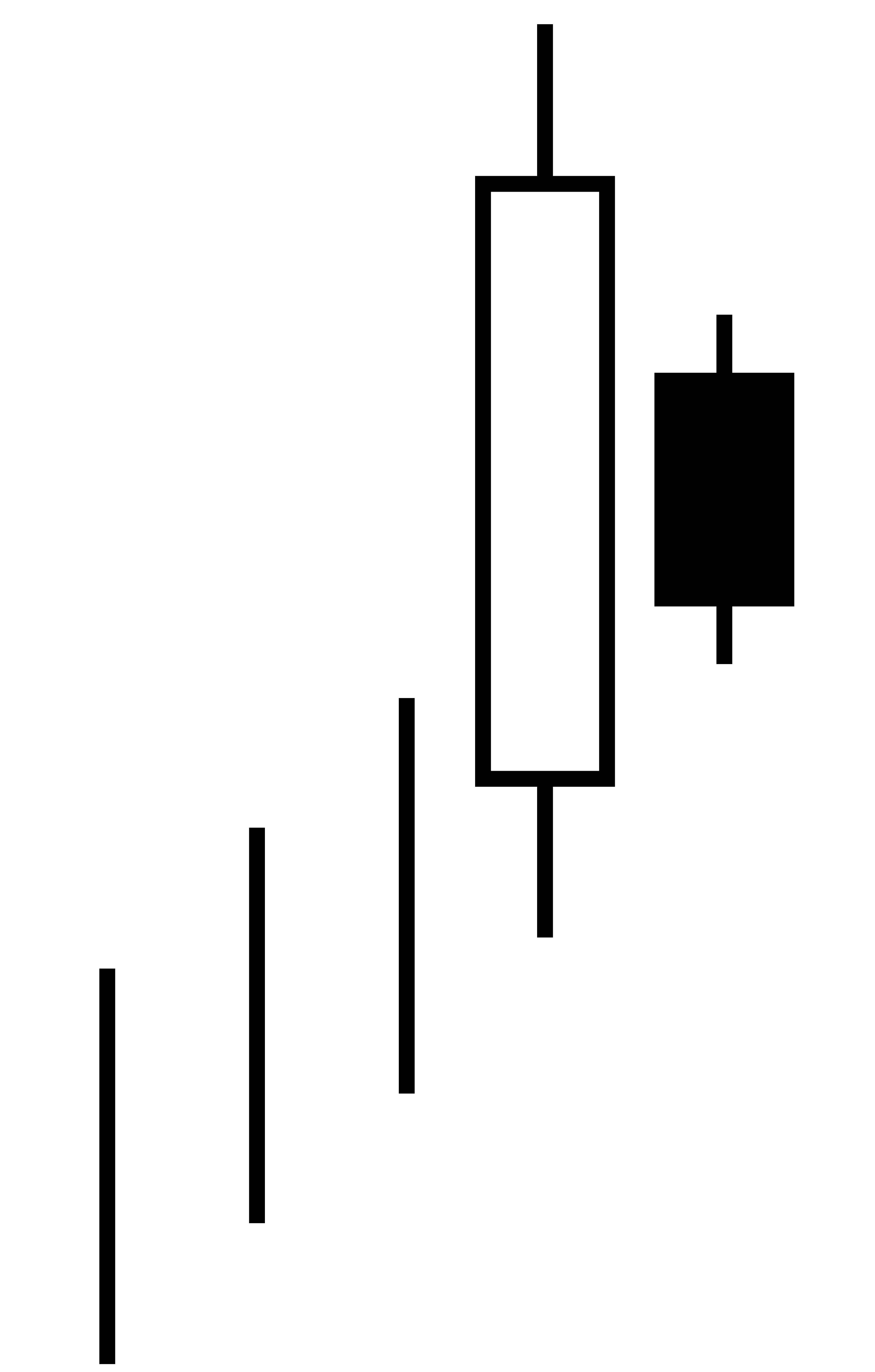 Bearish belt hold